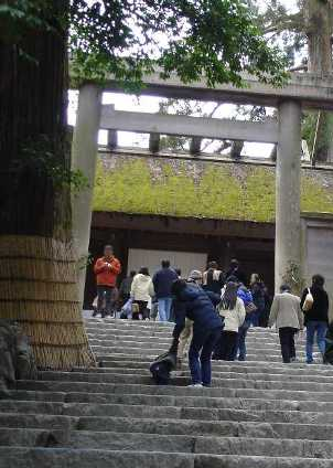 Description:Steps in front of Kotaijingu(Naiku) Shogu of Ise-Shinto-Shrine(伊勢神宮内宮正宮前の石段). Own-work. Shogu is the main sanctuary building.